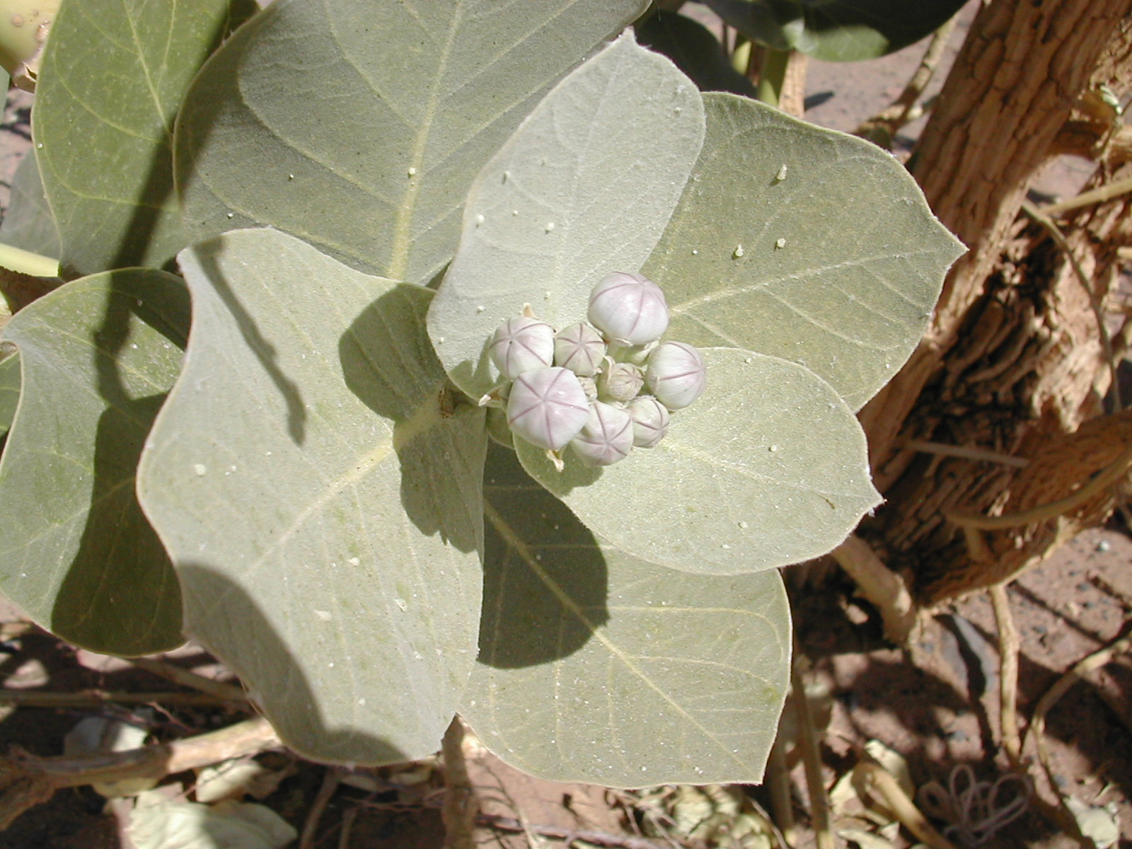 Thora thora (Calotropis procera), Algérie